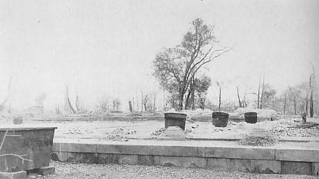 Yushima Seido after Great Kanto earthquake